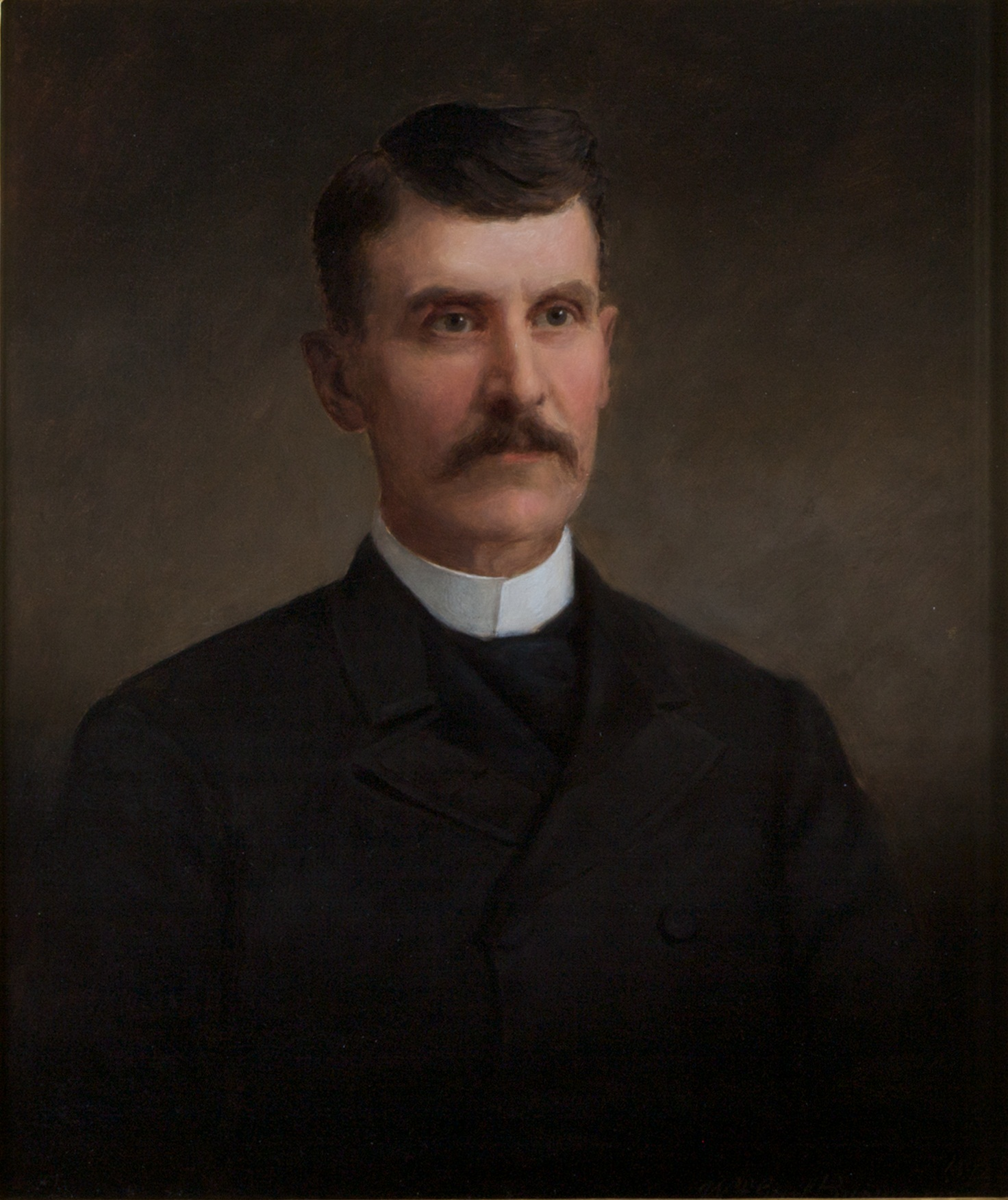 Portrait of Judge Lunsford L. Lewis, Oil on canvas, 30 x 25 in.